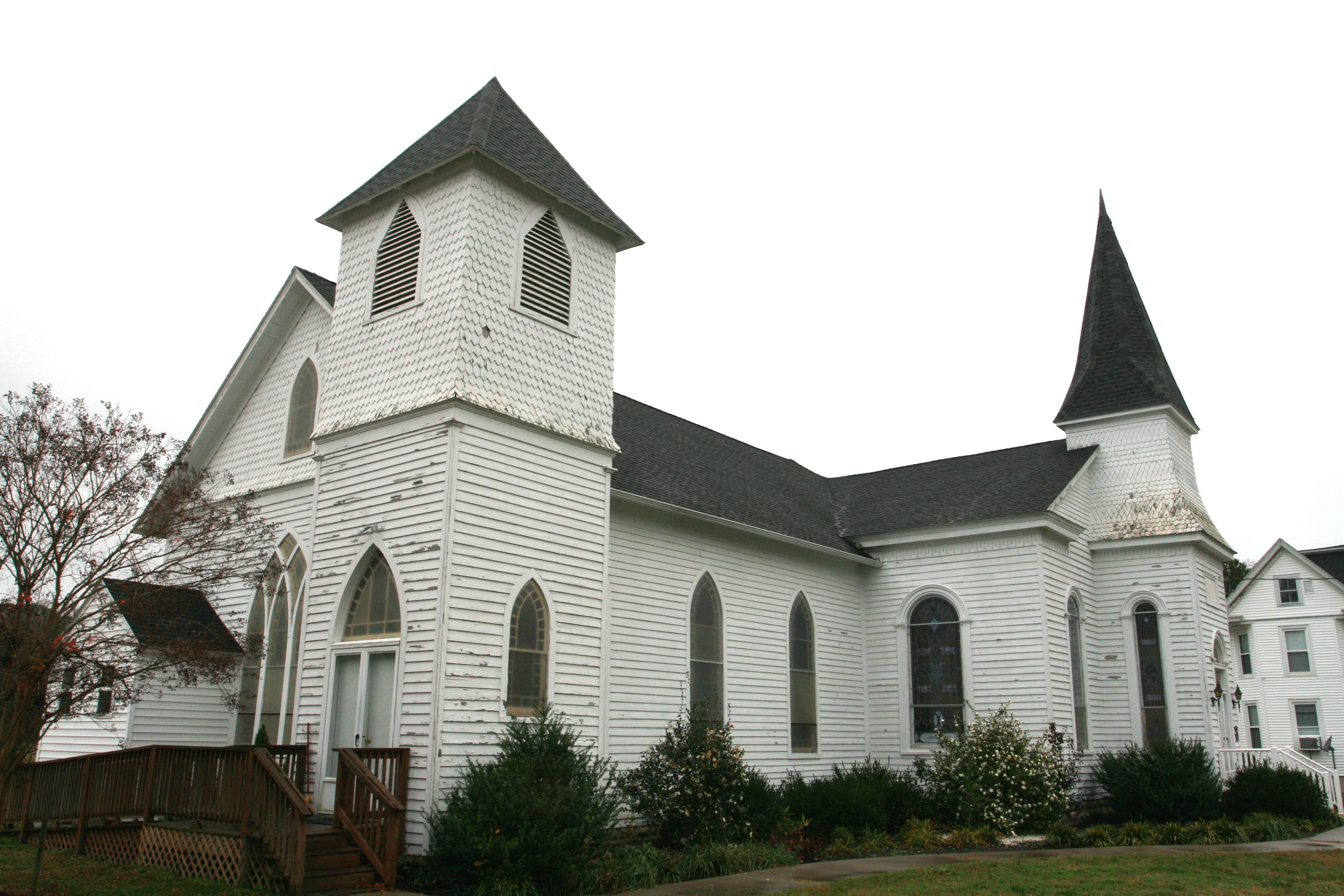 The historic Painter-Garrisons United Methodist Church, founded in 1784 by Bishop Francis Asbury.